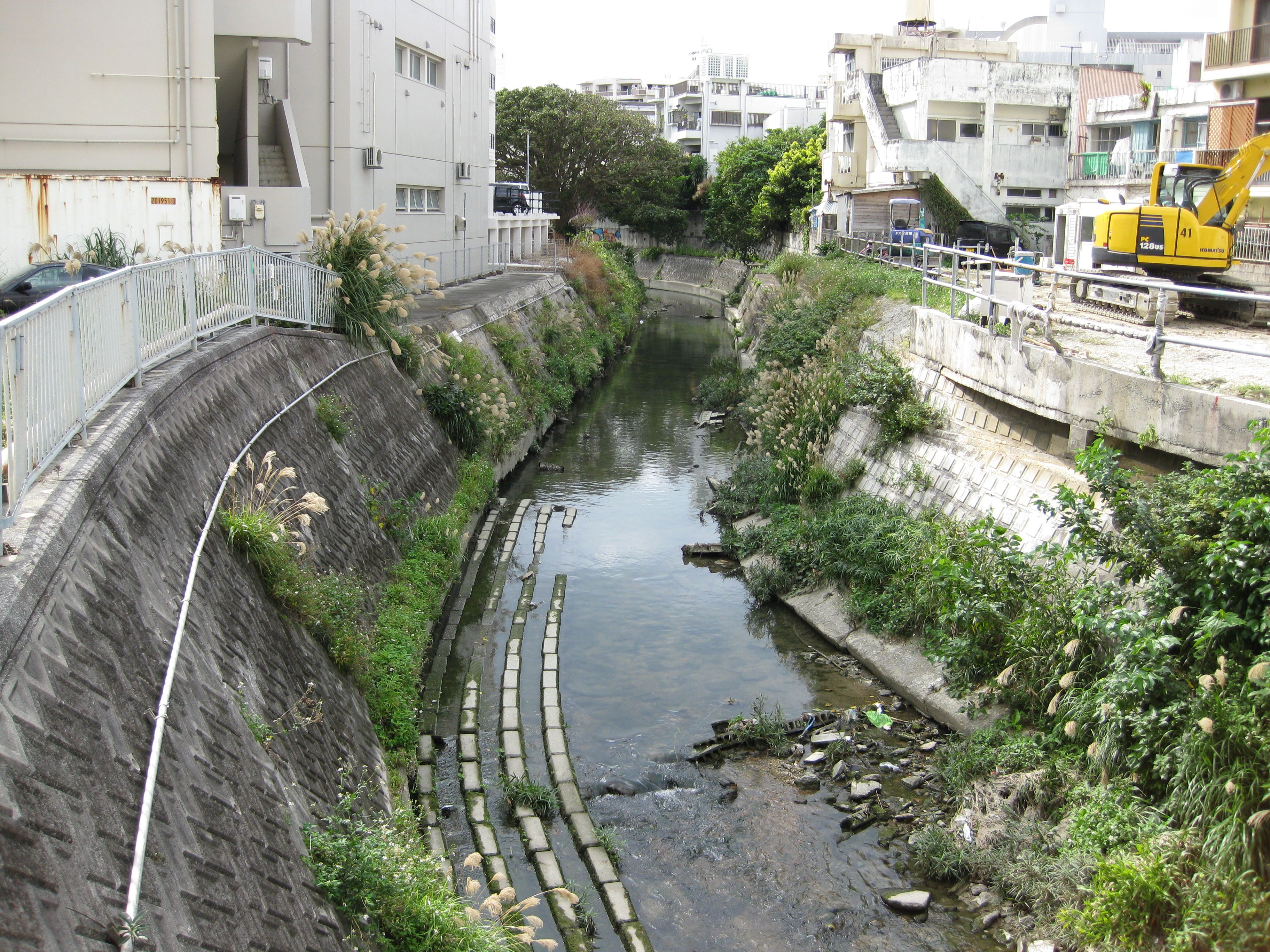 Asatogawa-river runs through Naha City in Japan